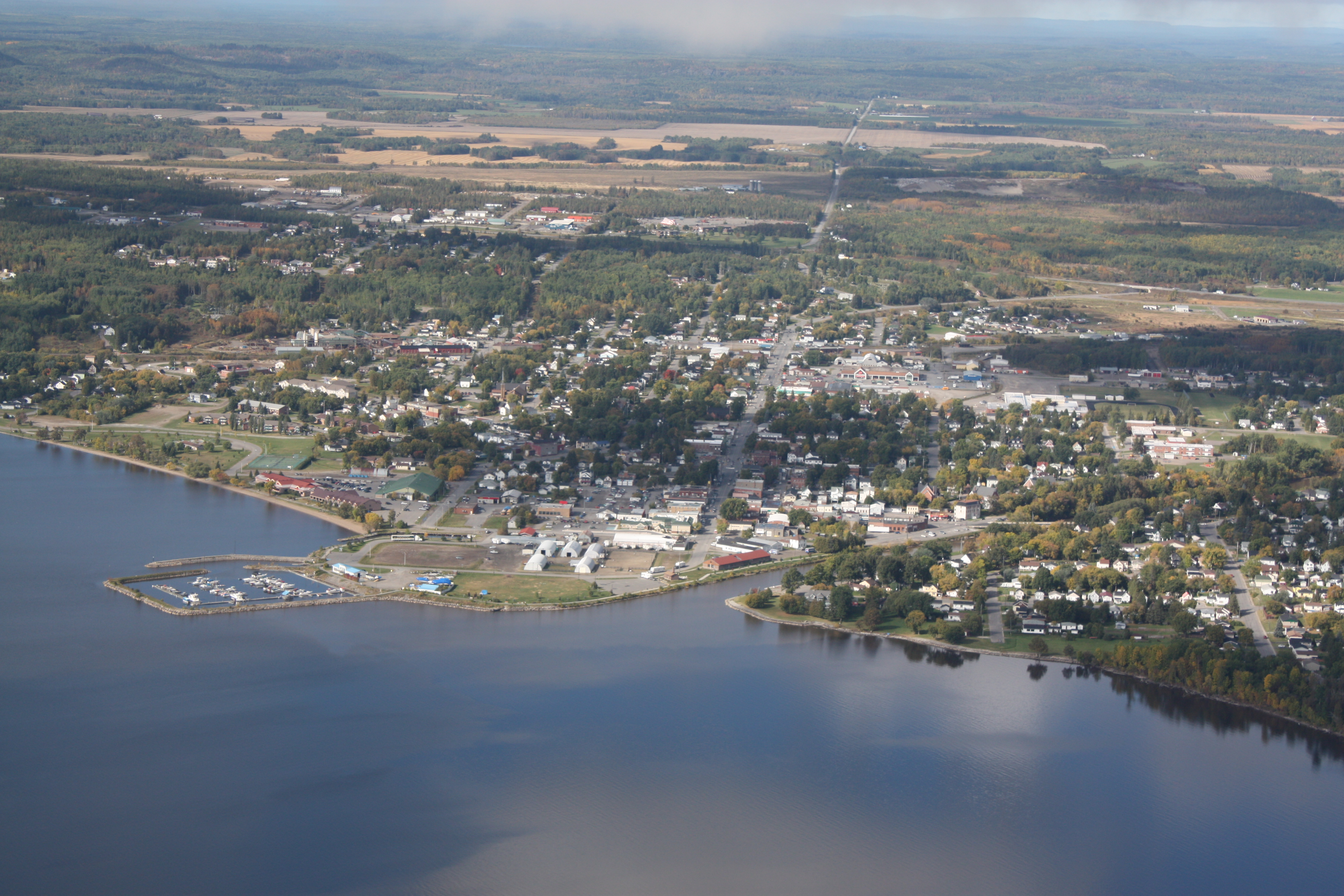 New Liskeard waterfront from the air. located in Northern Ontario, Canada and now part of the City of Temiskaming Shores